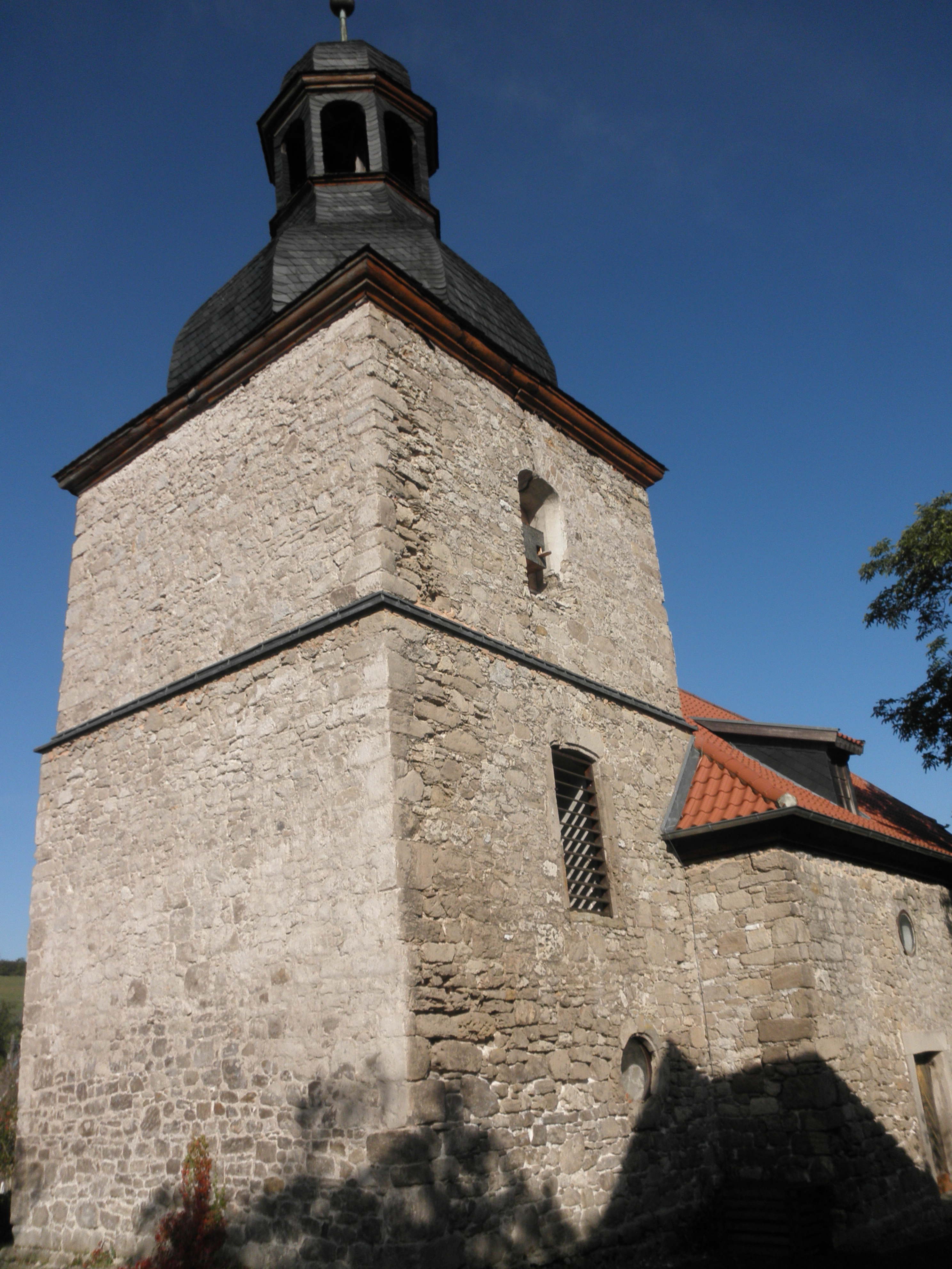 Church in Gudersleben (Ellrich) in Thuringia